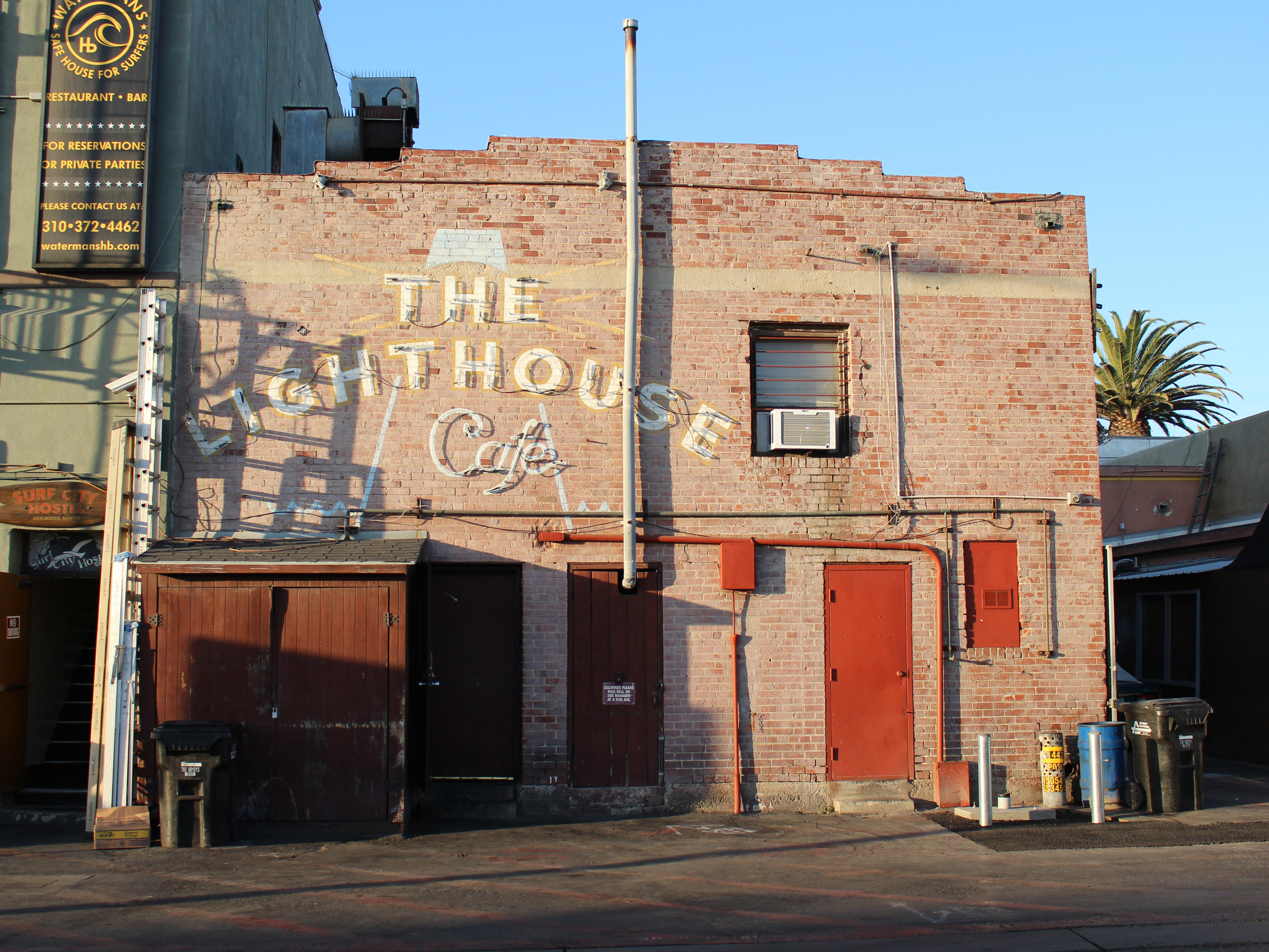 The back side of the Lighthouse Café in Hermosa Beach, California. This was featured in the 2016 film La La Land. Photographed by user Coolcaesar on December 27, 2017.